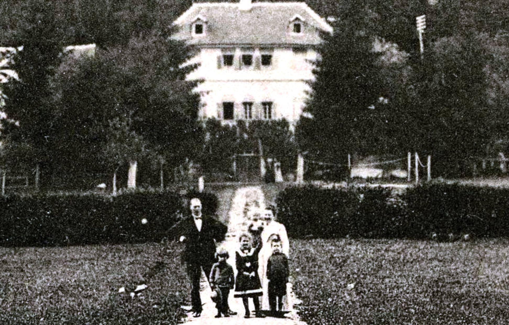 The Putz family in front of their mansion Sinntalhof near Brückenau, Lower Franconia, Germany. From the left: Sebastian (1867–1937), Josef (1897–1914), Sophie (1894–1923), Elisabeth (* 1900), in her mother's arm), Amalie (1868–1918), nee Moritz, and Ernst Putz (1896–1933). When this picture was made their fifth child Charlotte (1903–1960) wasn't born, yet.